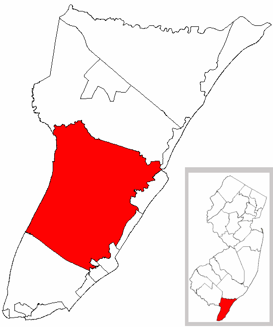 Map of Cape May County highlighting Middle Township